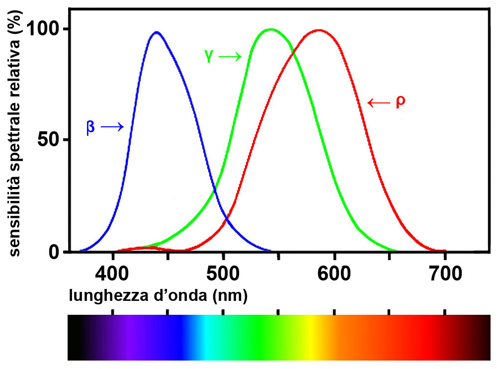 ρ, γ, β: spectral sensitivity curves of the three types of human photoreceptors responsible for color vision, determined by indirect methods below: electromagnetic spectrum